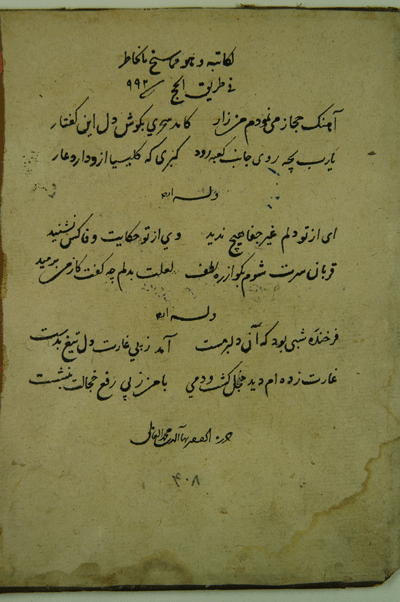 Persian poem by Shaykh Bahai